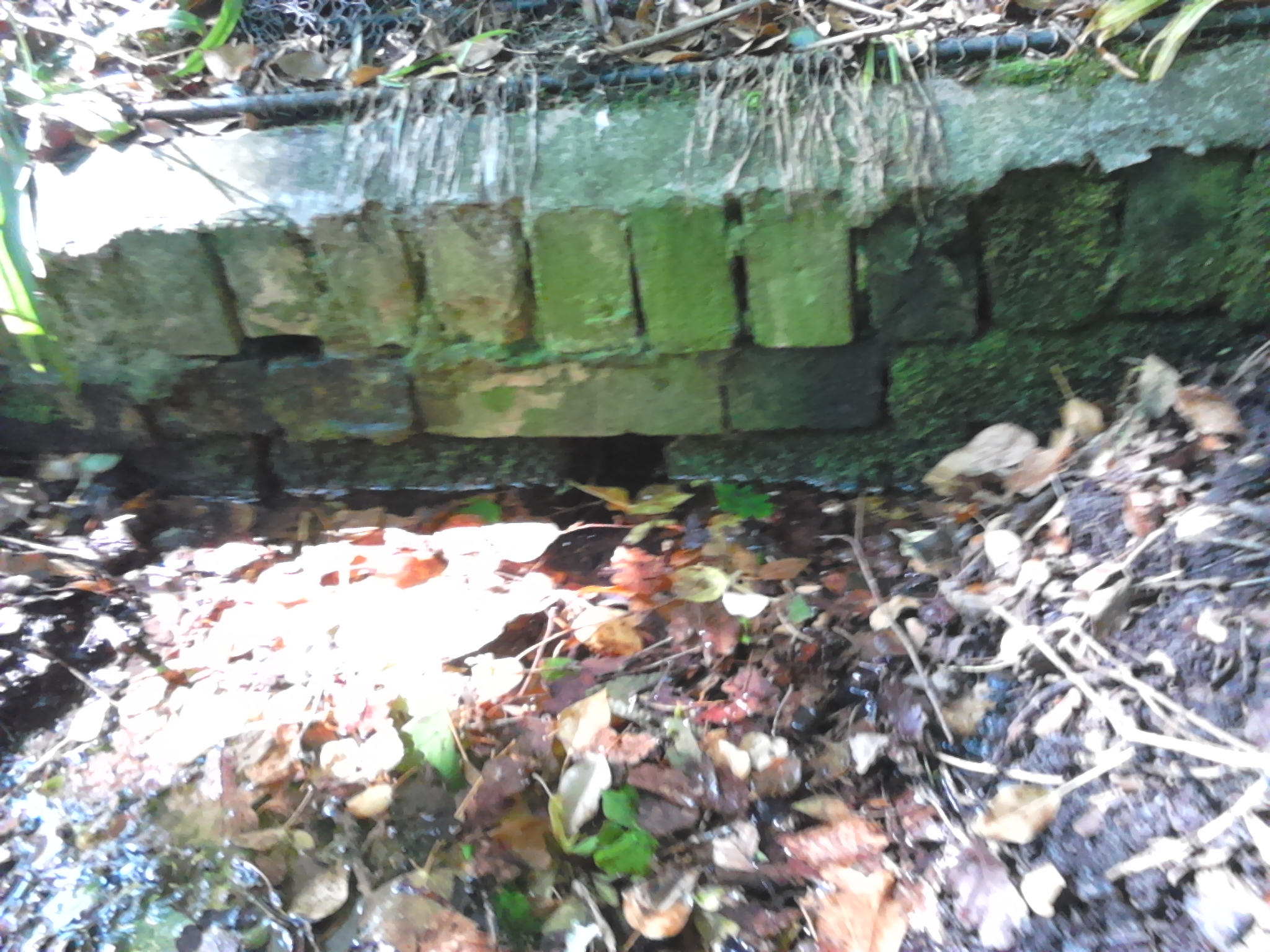 This is a photo of the Lady's Well of Woolpit